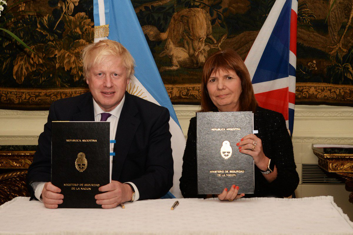 Patricia Bullrich, former Argentine Minister of Security, along with former British Foreign Secretary Boris Johnson, during the signing of the Memorandum of Understanding between the Ministry of Security of the Argentine Republic and the Ministry of Interior of the United Kingdom of Great Britain and Northern Ireland, in Buenos Aires, Argentina.